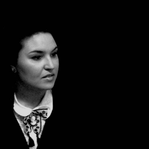 private portrait photo